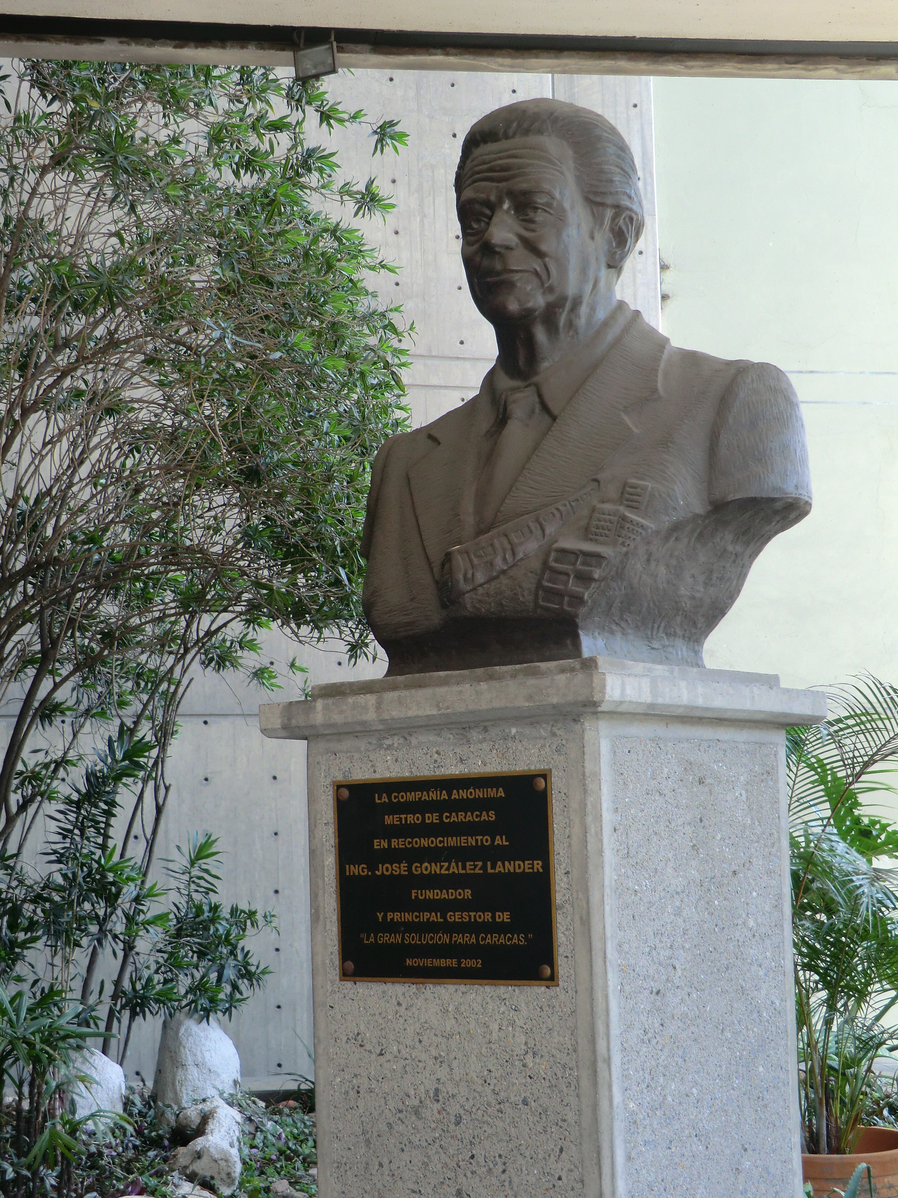 Bust of Caracas Metro founder José González Lander. La Hoyada station, Caracas.